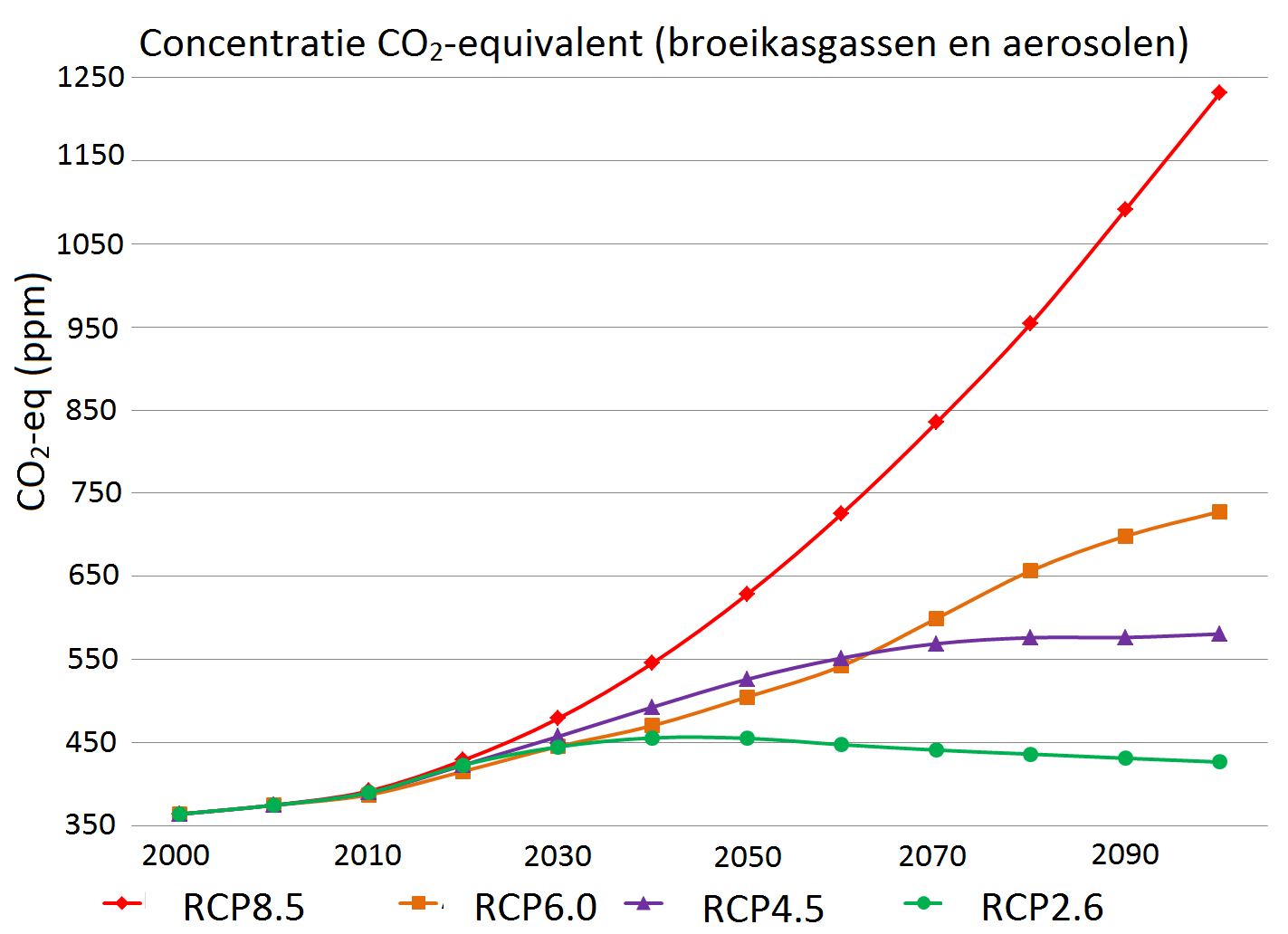 Translation to dutch of File:All_forcing_agents_CO2_equivalent_concentration.png